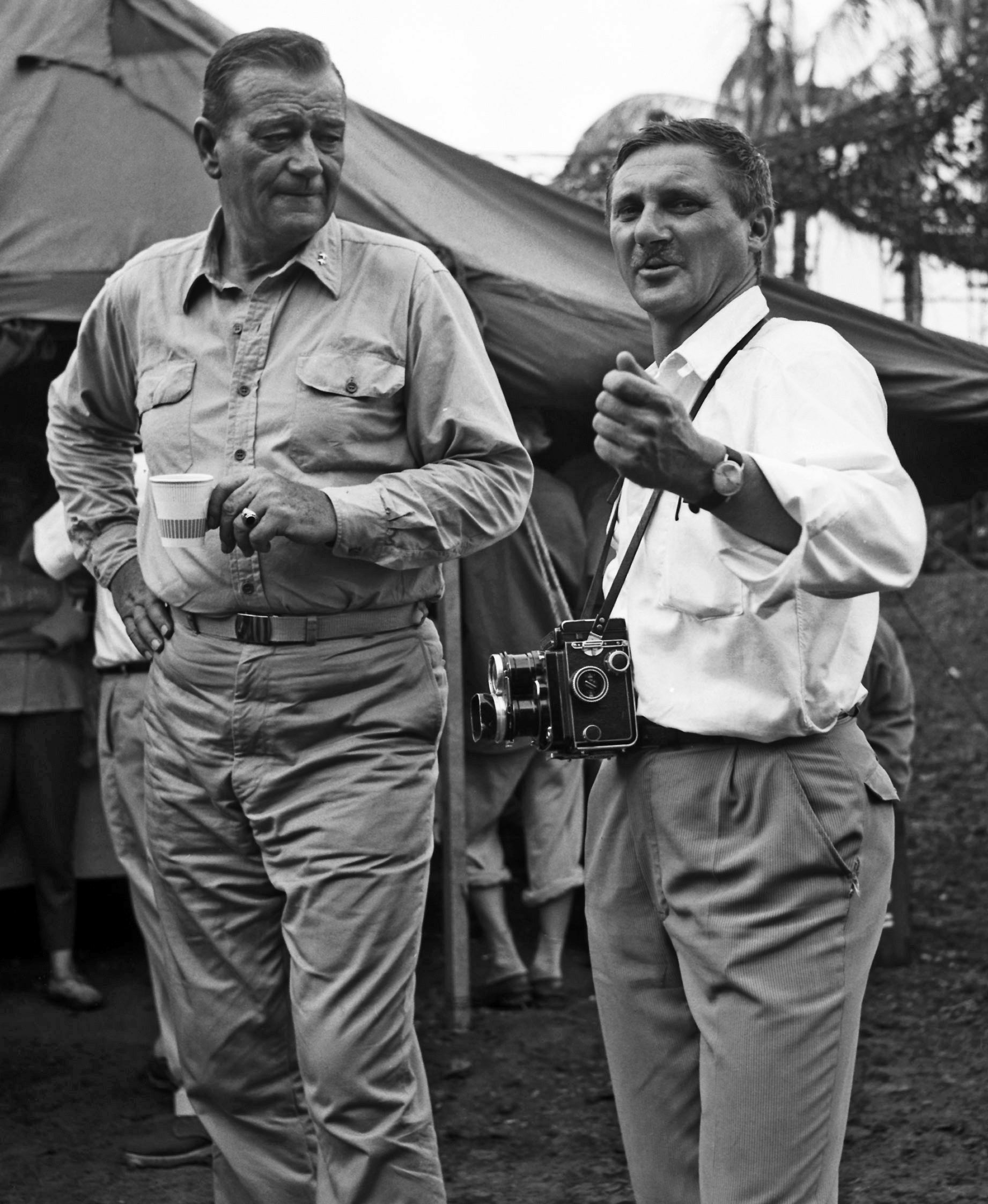 John Wayne and photographer Lothar Winkler on the set of "In Harm's way" in september 1964.